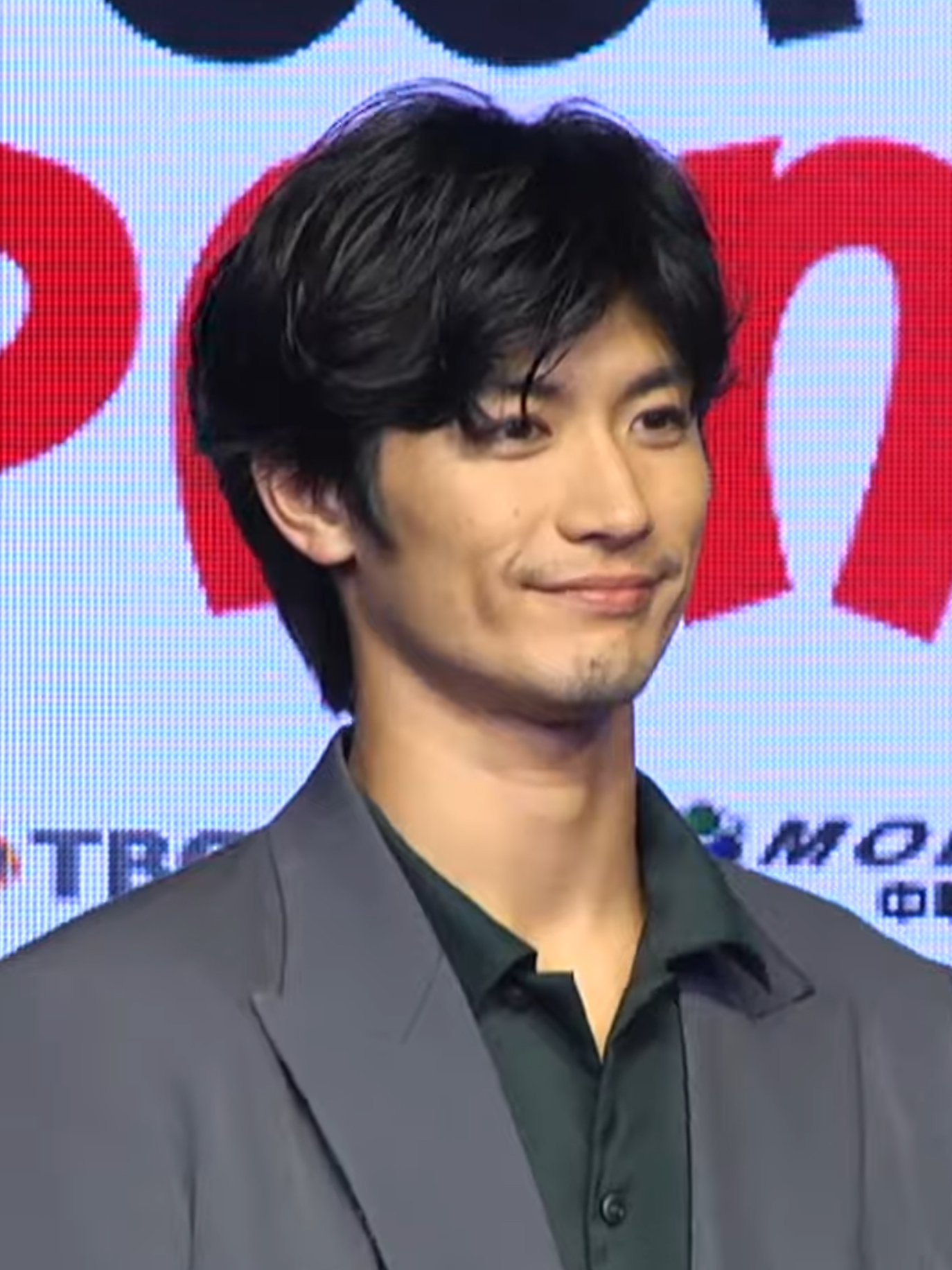 Miura Haruma at Taiwan fan meeting in 2019/08/29.